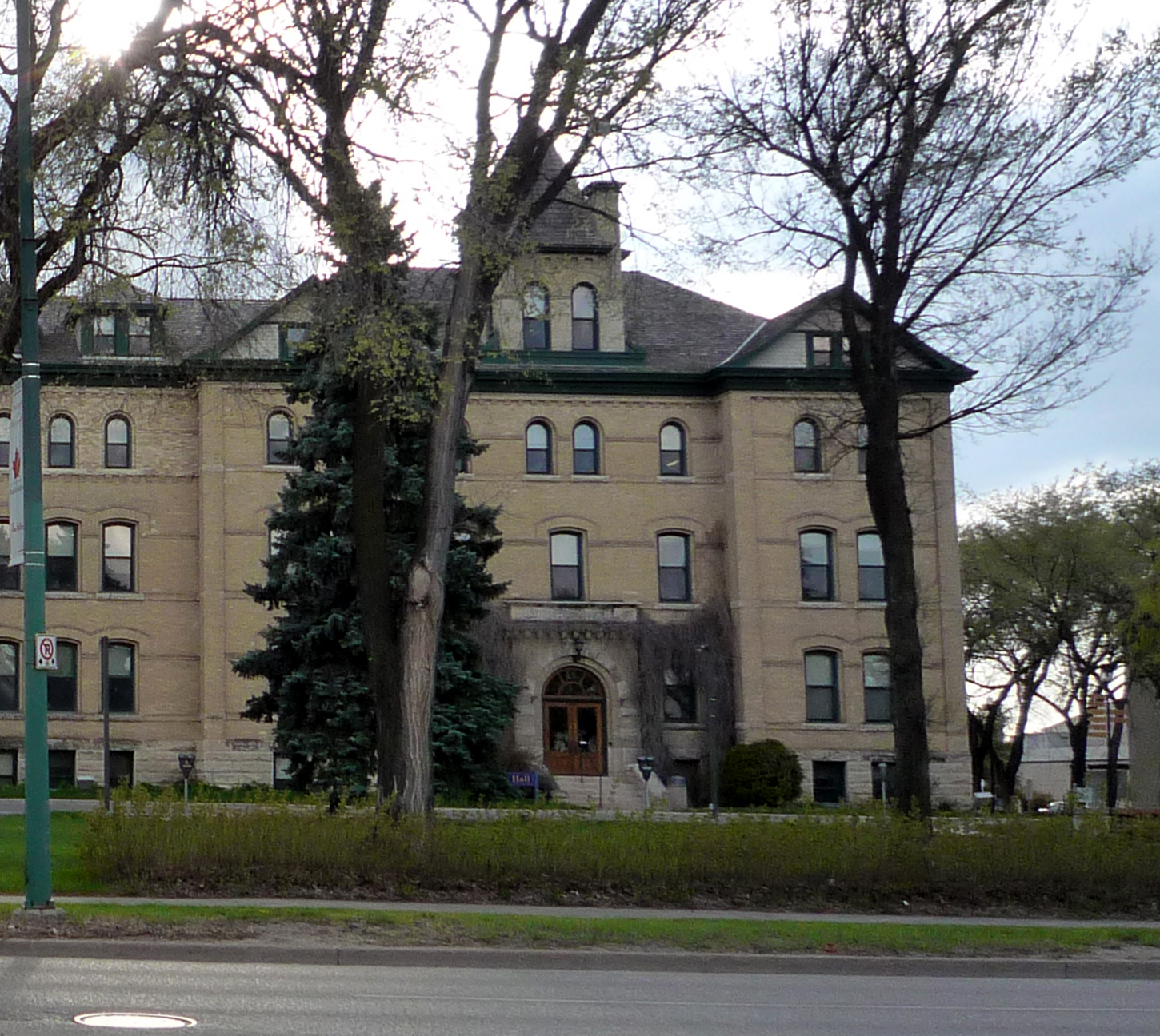 Clark Hall of Brandon University in Brandon, Manitoba.